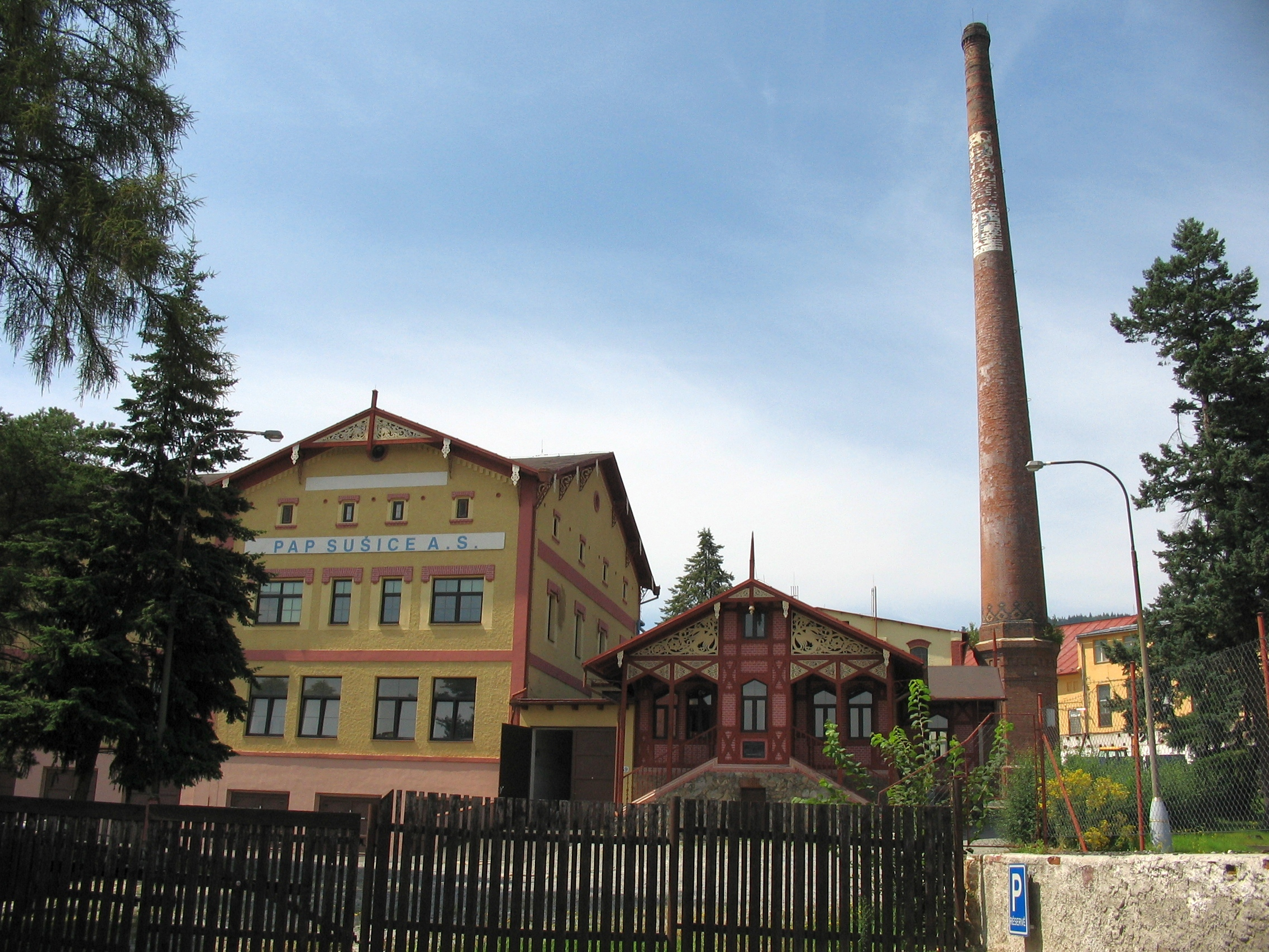 PAP, food containers producer in Sušice, Klatovy District, Czech Republic